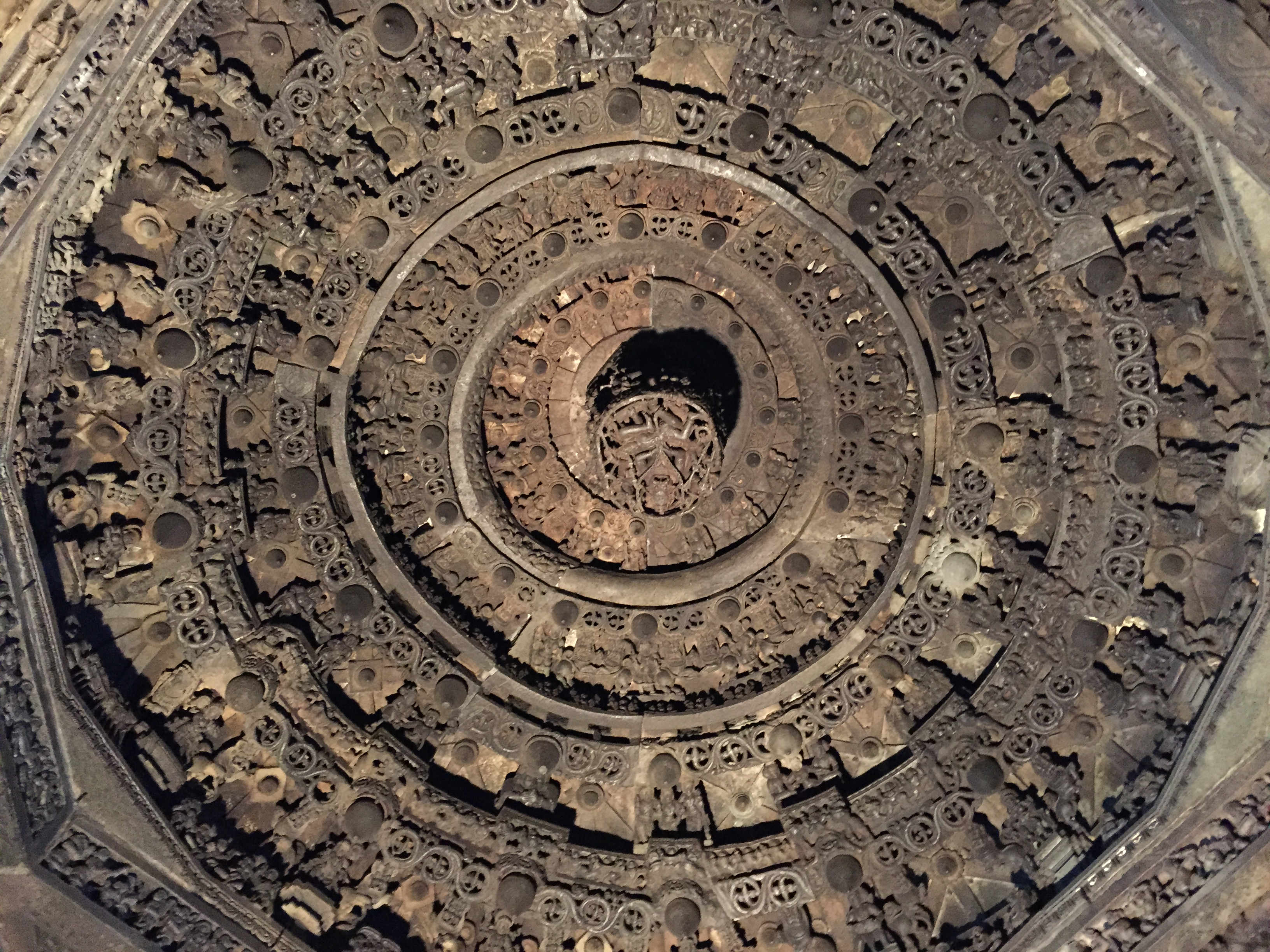 The Chennakeshava temple ceiling sculpture work in Belur, Karnataka